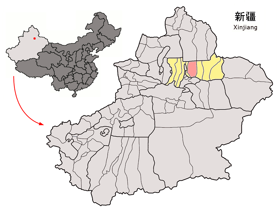 Location of Fukang City (pink) and Changji Prefecture (yellow) within Xinjiang autonomous region of China Map drawn in september 2007 using various sources, mainly : Xinjiang Uygur autonomous region administrative regions GIS data: 1:1M, County level, 1990 Xinjiang Counties map from